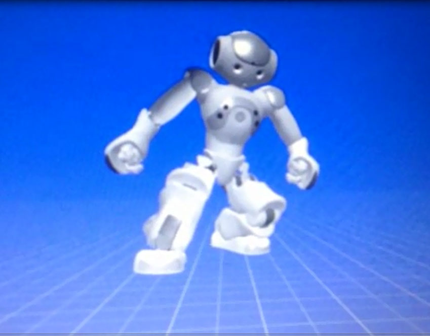 This animation was first presented on an exhibition of Martin Sjardijn in Pulchri Studio